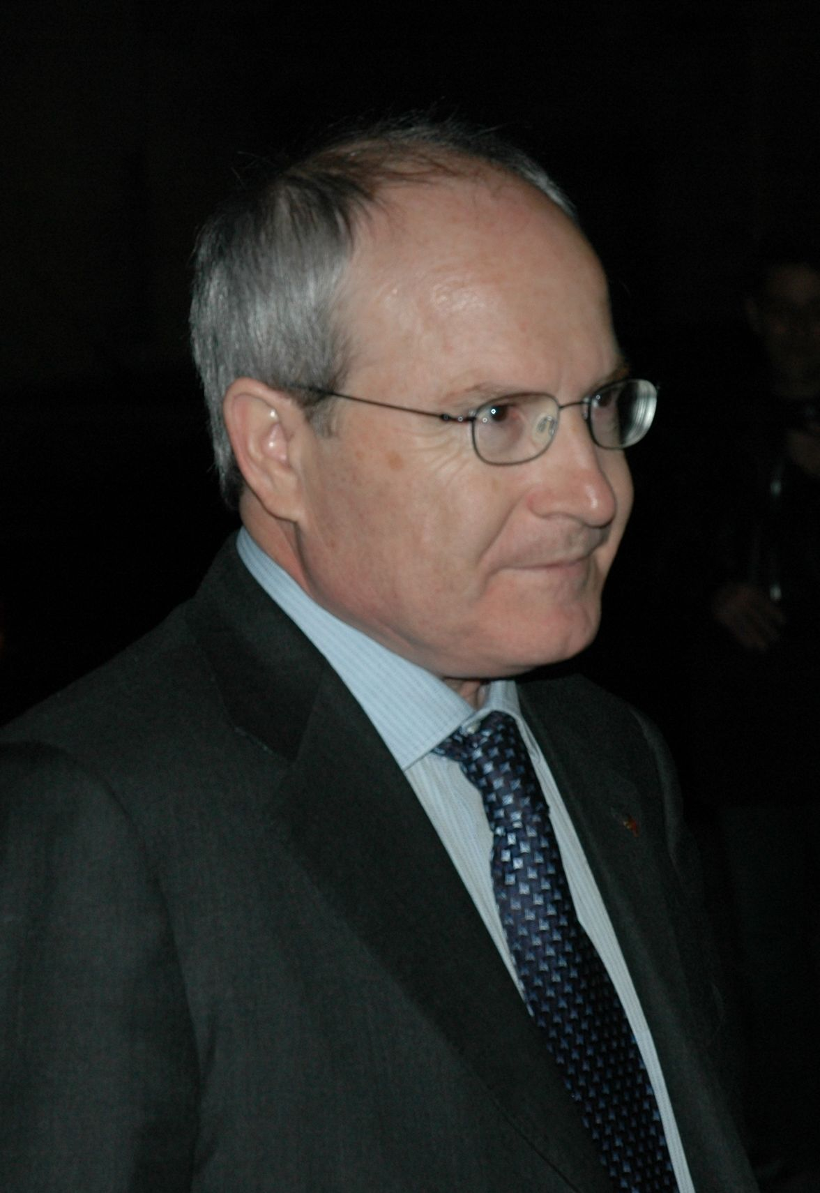 José Montilla Aguilera was the 128th president of the Generality of Catalonia.